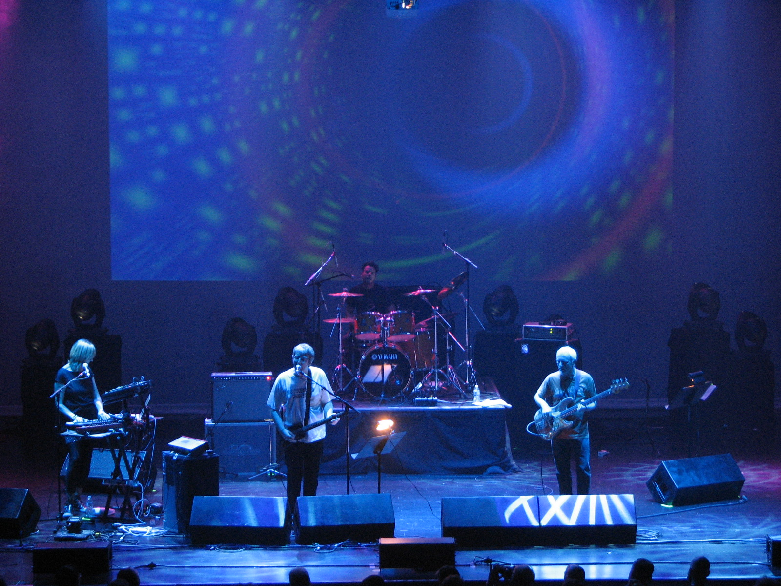 Steve Hillage Band (June 19, 2009), from left: Miquette Giraudy (keyboards), Steve Hillage (guitar), Chris Taylor (drums) and Mike Howlett (bass).